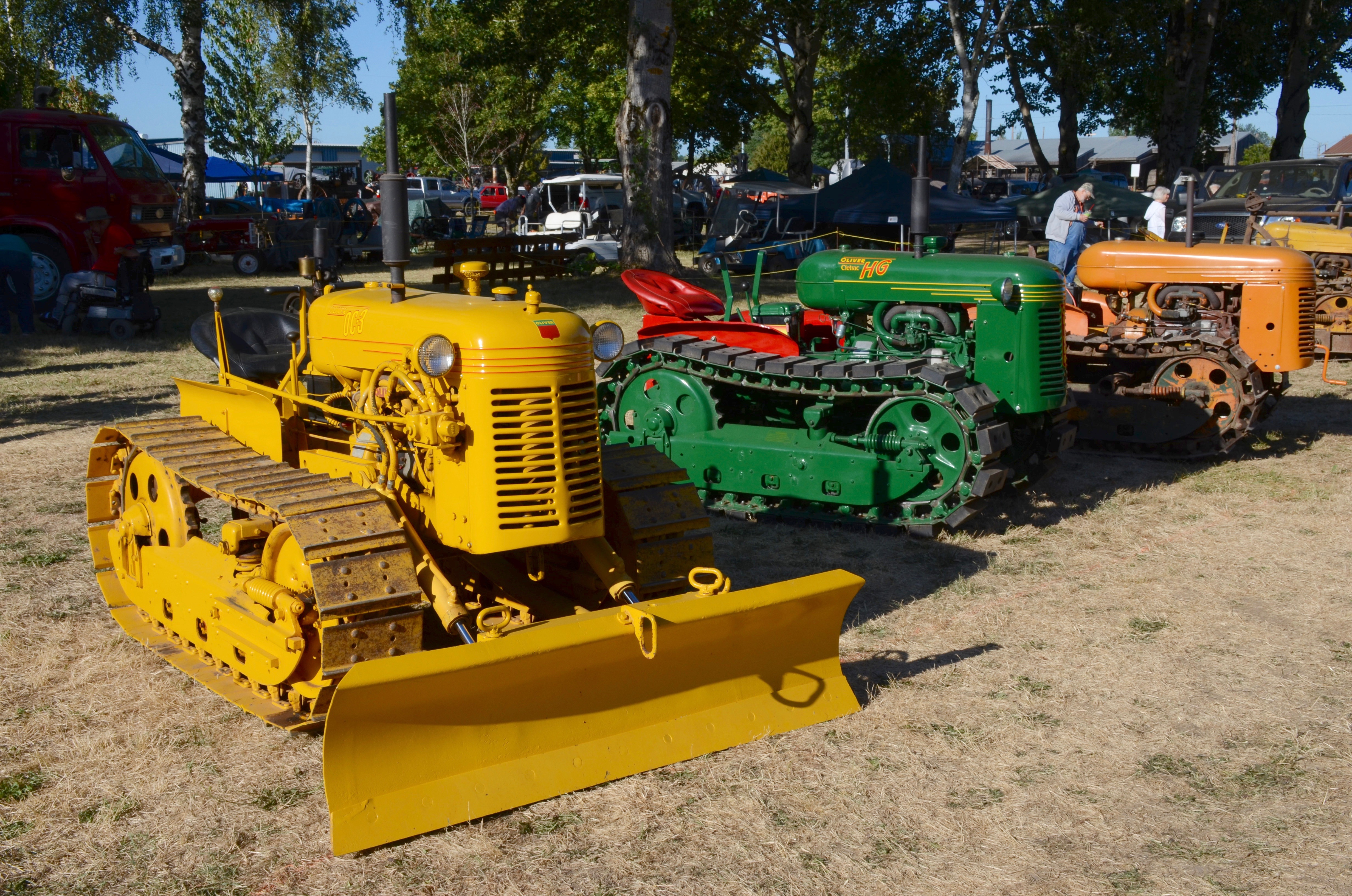 Tractors built by the Oliver Farm Equipment Company on display at Antique Powerland (Brooks, Oregon) during the 2016 Great Oregon Steam-Up. The two closest to the camera are an Oliver OC-3 (dating from the 1950s) and an Oliver Cletrac HG (from the late 1940s or very early 1950s).